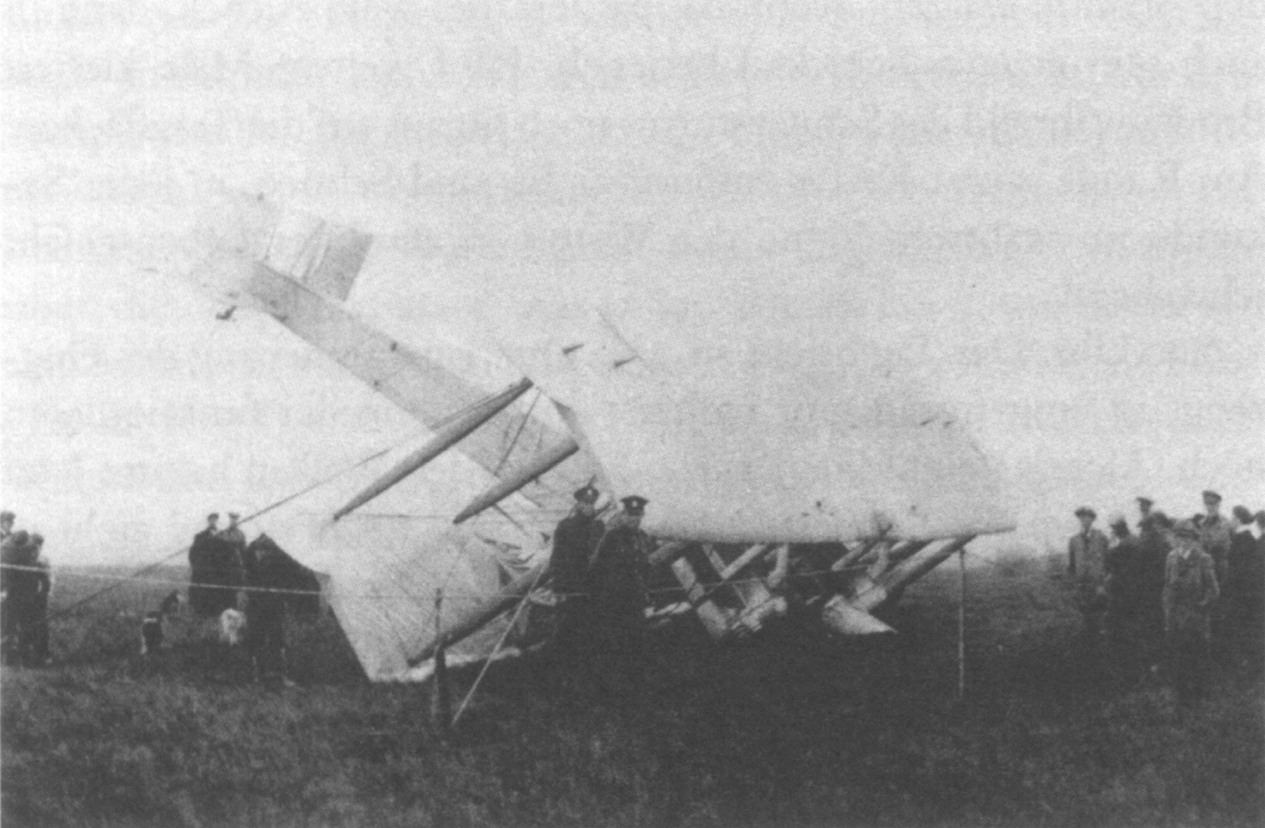 Vickers Vimy, Pilots Alcock and Brown, Clifden 1919-06-15